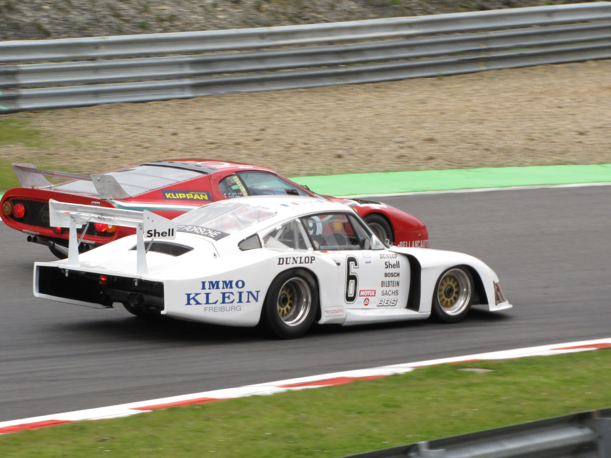 A Joest-Porsche 935/78-81 "Moby Dick" overtaking a Ferrari 512 BB LM in the Classic Endurance Racing Event at Spa 2009.